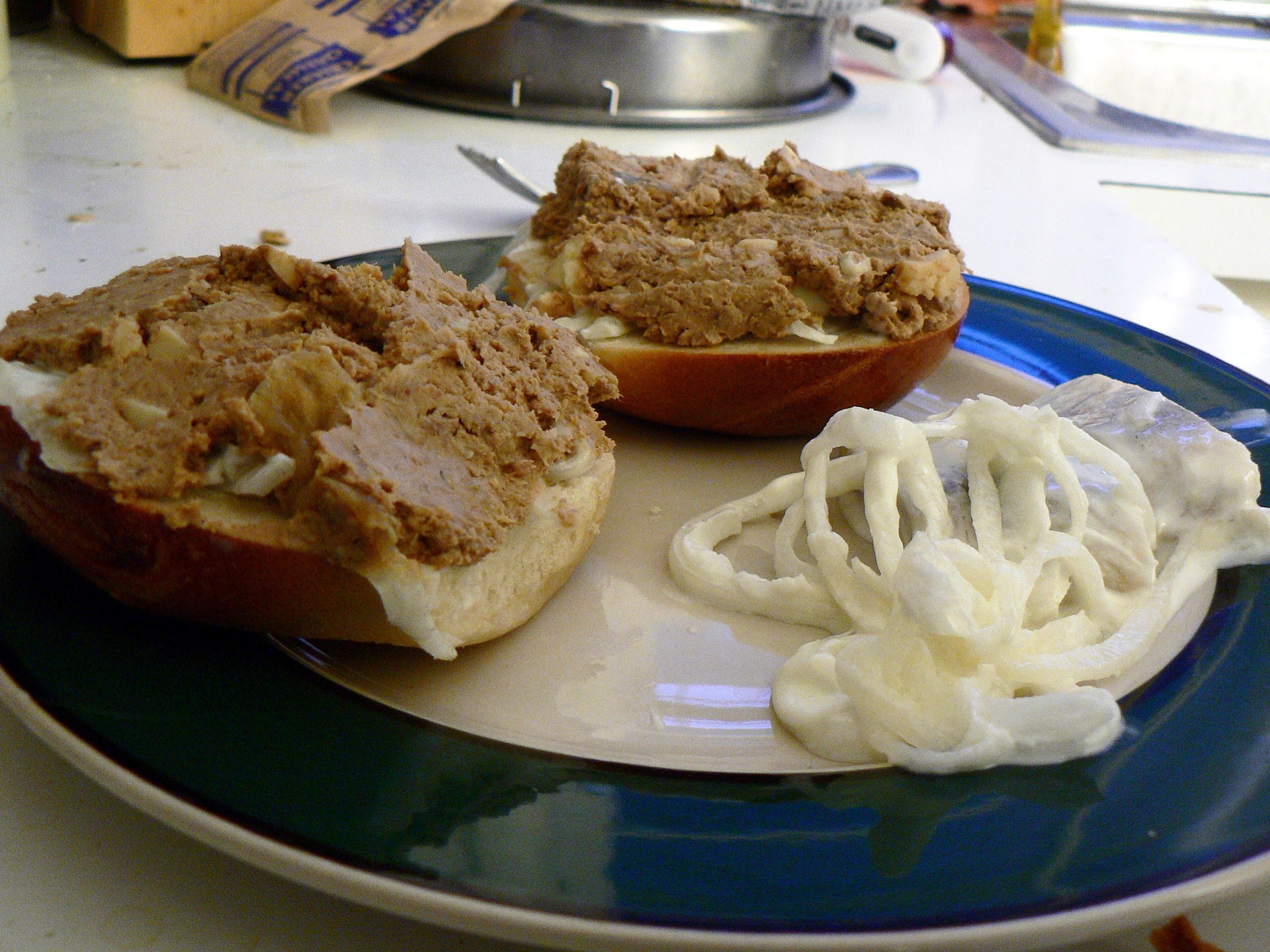 Chopped liver and creamed herring